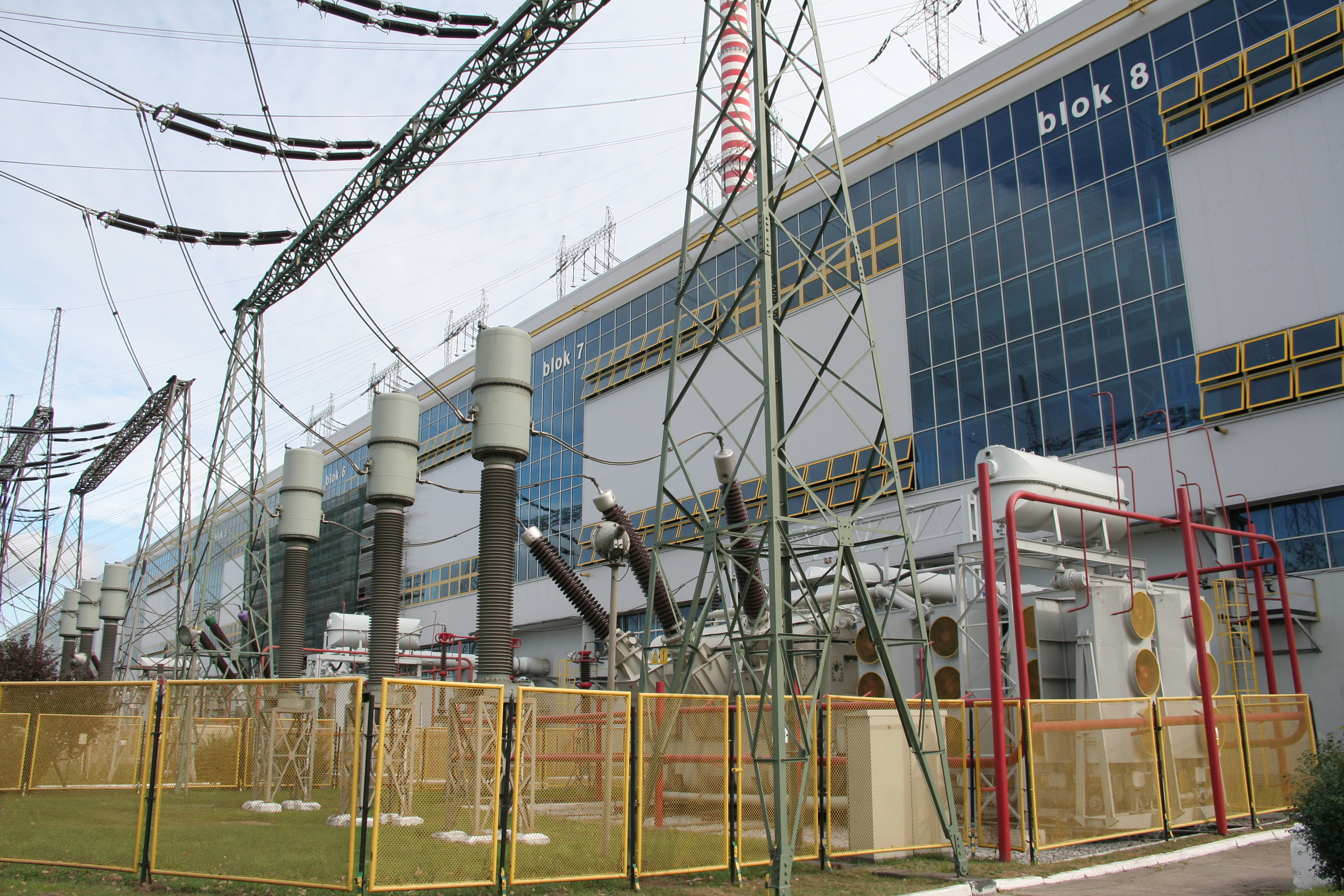 Dolna Odra Power Plant, Poland